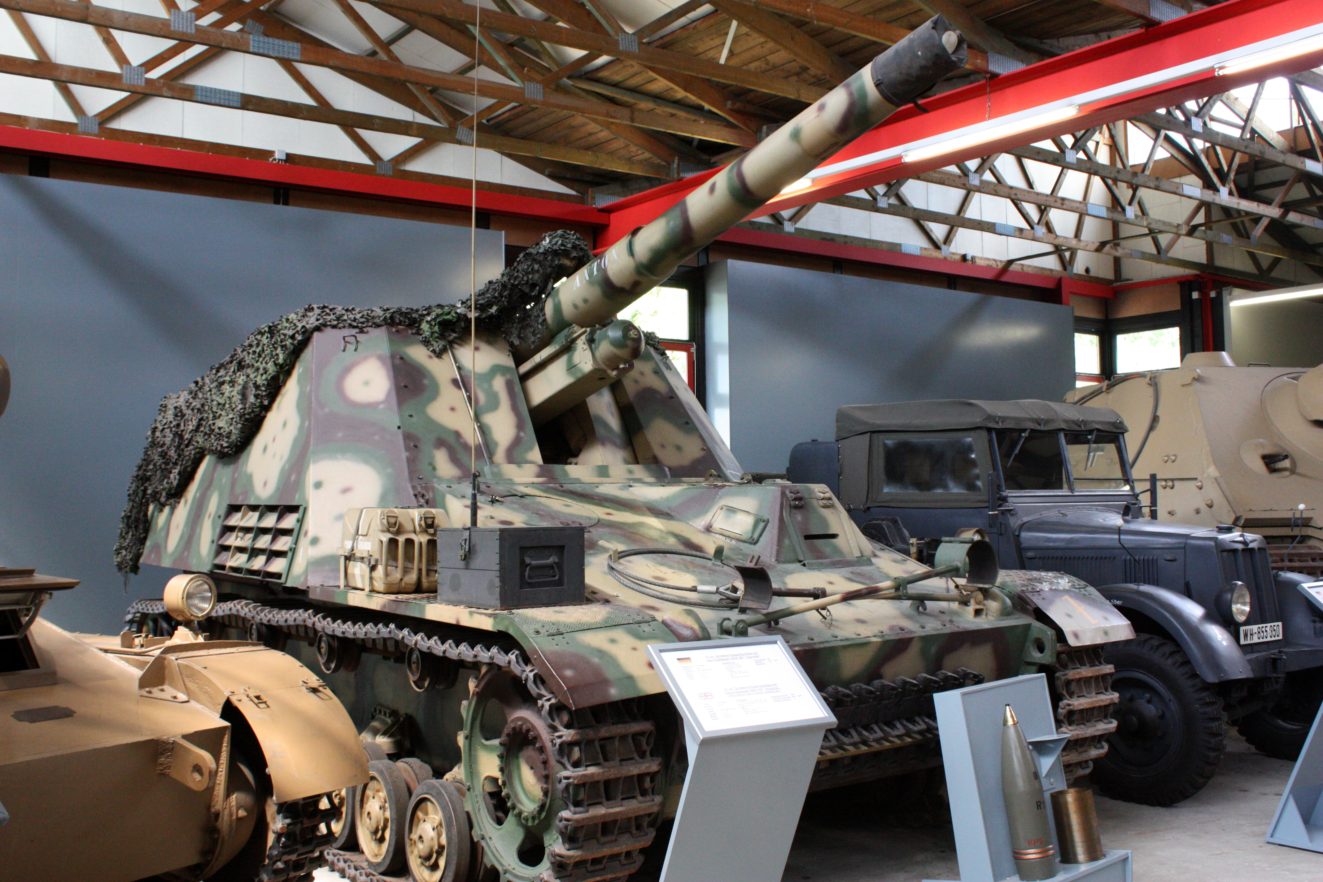 German Tank Museum